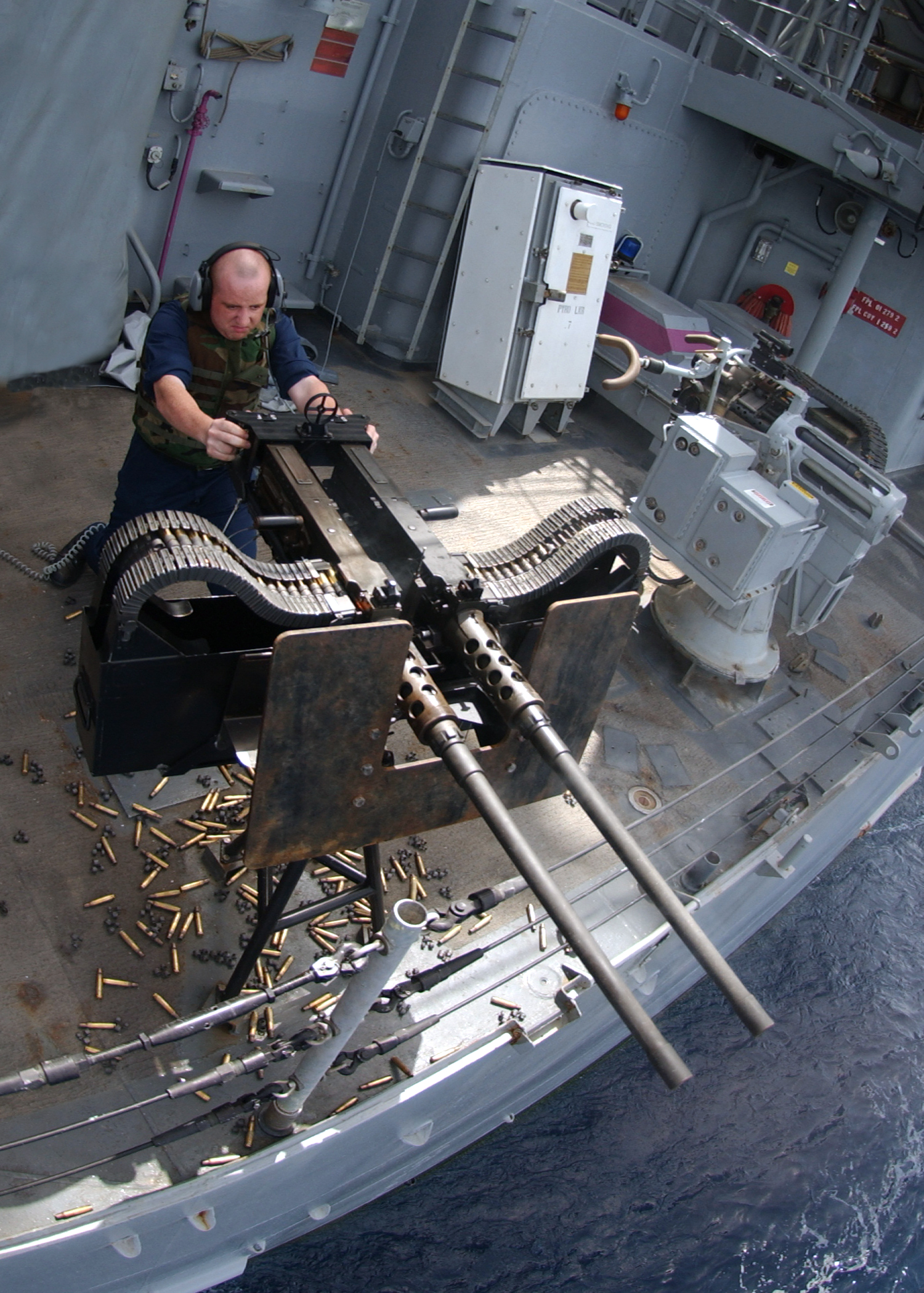 Gulf of Aden – Fire Controlman Steven Baumgartner from Oelwein, Iowa, assigned to Combat Systems Department aboard the guided missile cruiser USS Normandy (CG 60), fires the twin .50 caliber machine gun during a Pre-Action Calibration Fire (PACFIRE) exercise. Normandy was conducting Maritime Security Operations (MSO) in the 5th Fleet area of responsibility at the time.